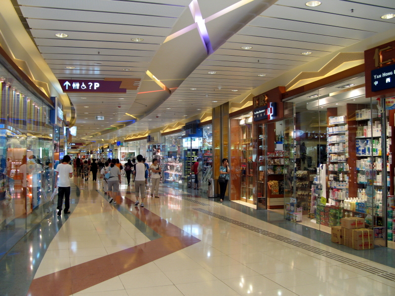 The Lane Shopping Mall 蔚藍灣畔